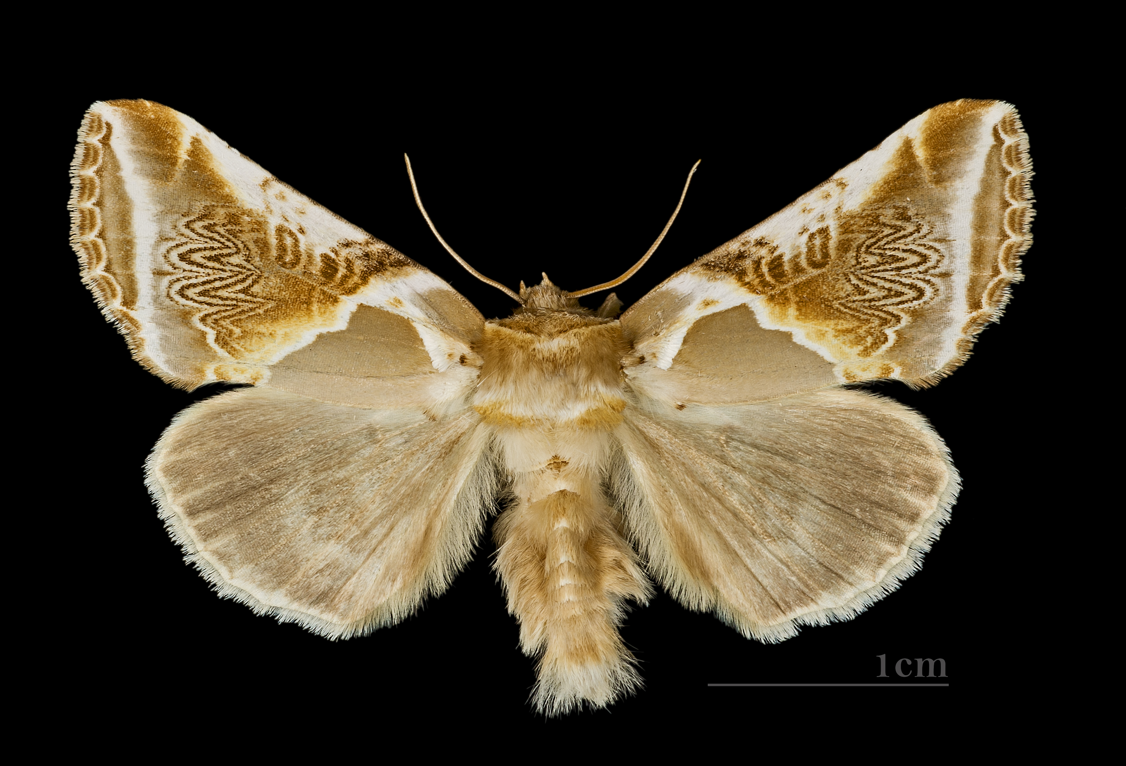 Buff Arches. Dorsal side